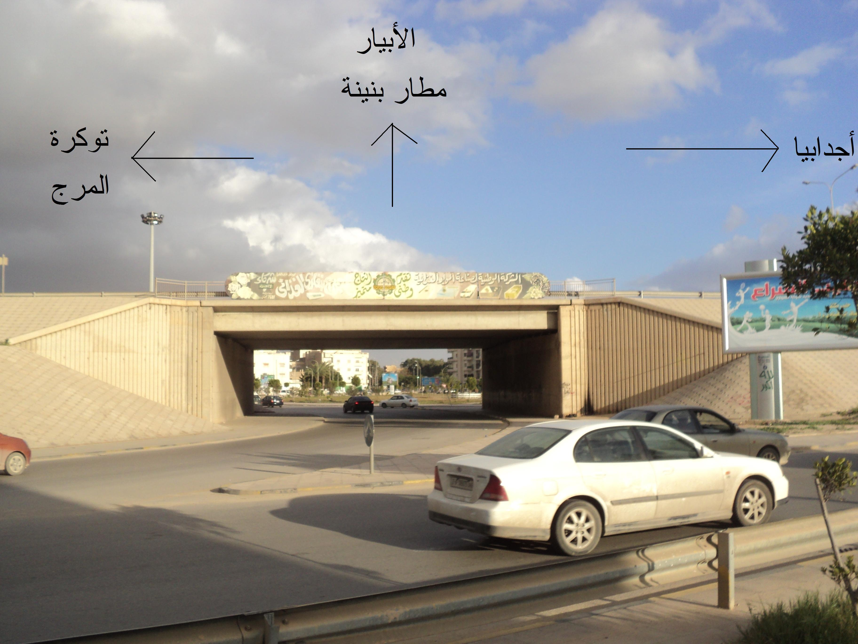 Al Jalaa roundabout (near Ras Ubaida), Benghazi.